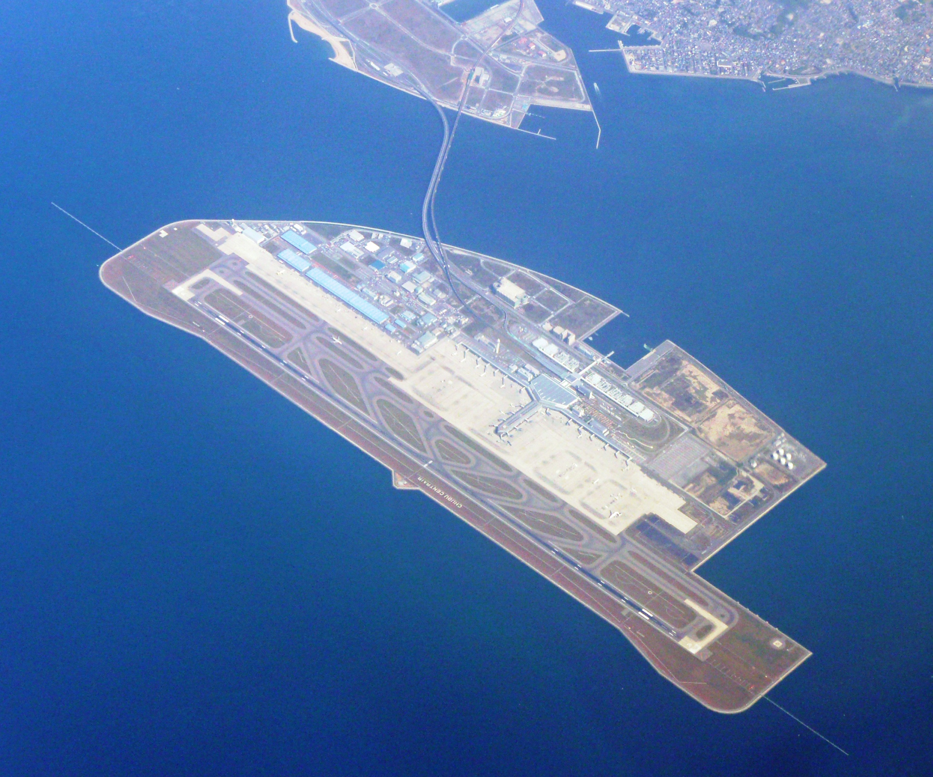 Chūbu Central Airport from above.